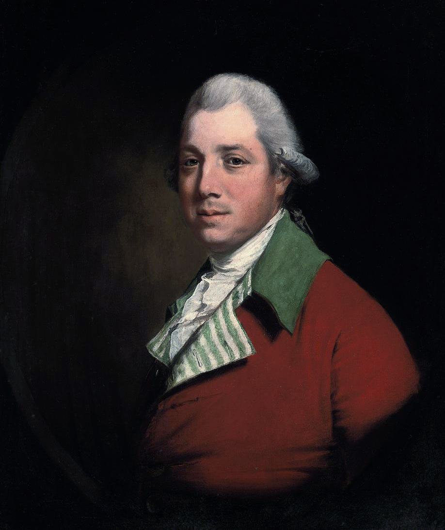 Portrait of Sir Henry Dashwood Peyton, Bt. (d.1789), in a red coat with a green collar and striped facings oil on canvas feigned oval 76.3 x 62.3 cm.